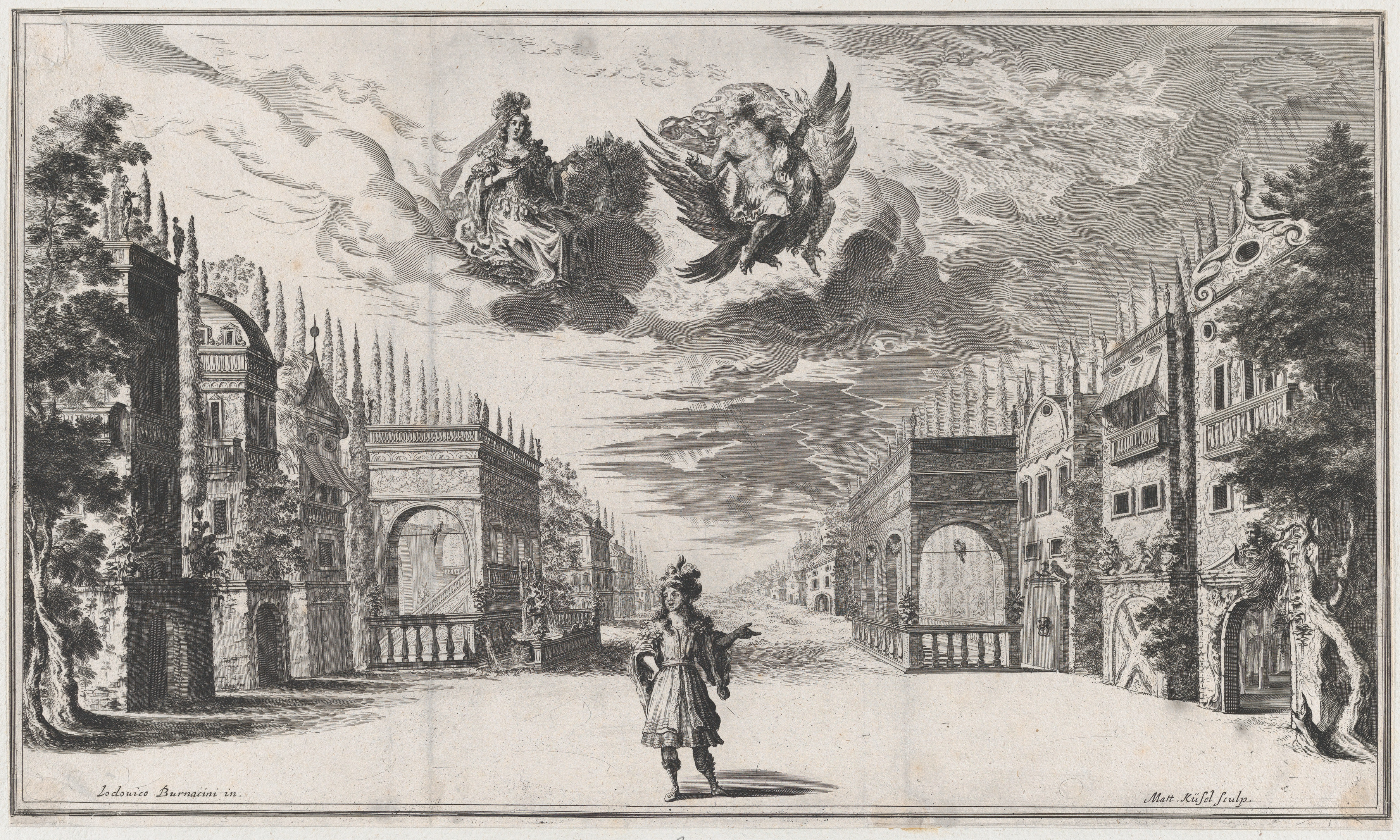 Print, Fete, Ornament & Architecture; Prints